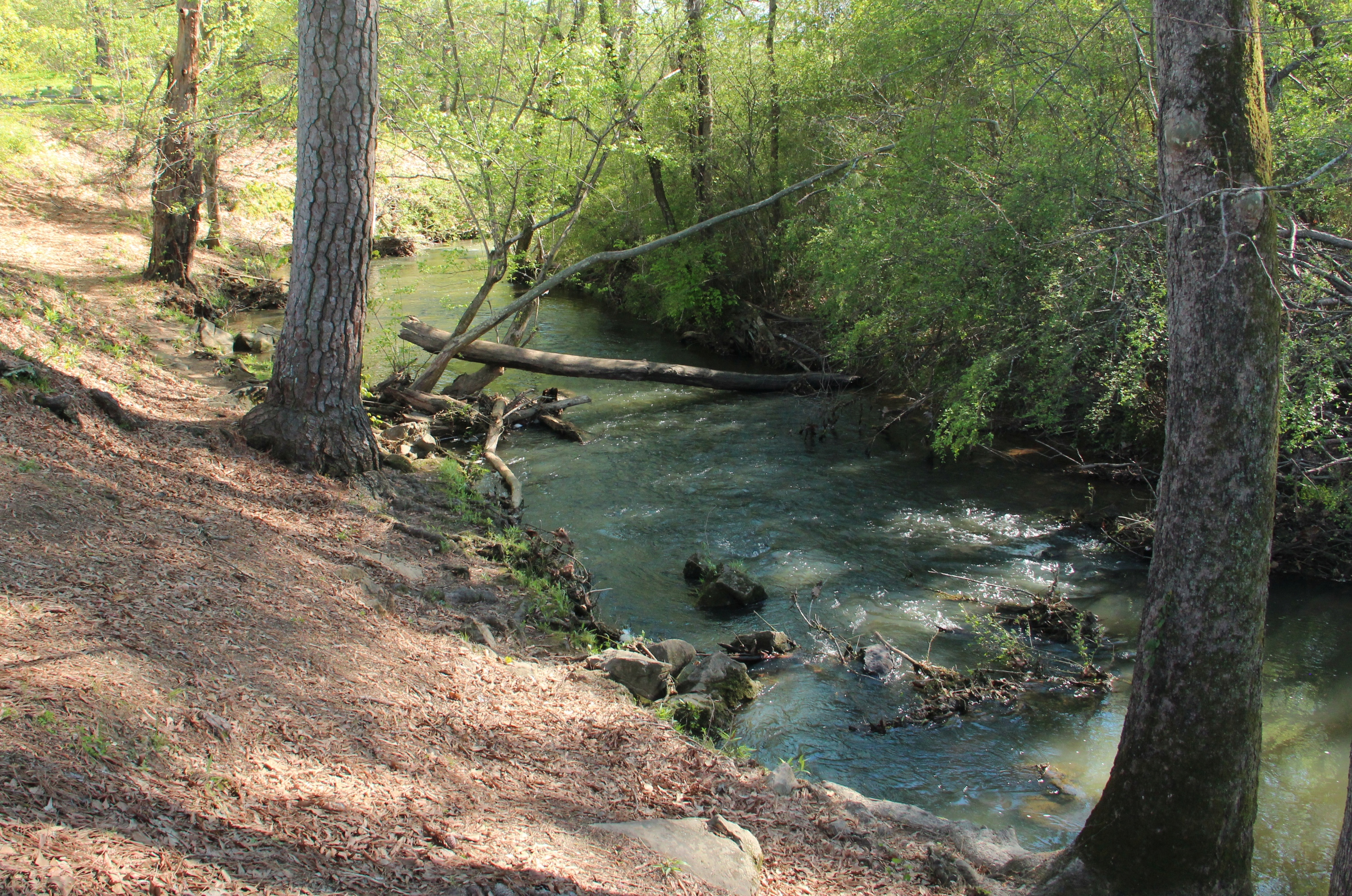 Nancy Creek in the Cartersville Sport Complex